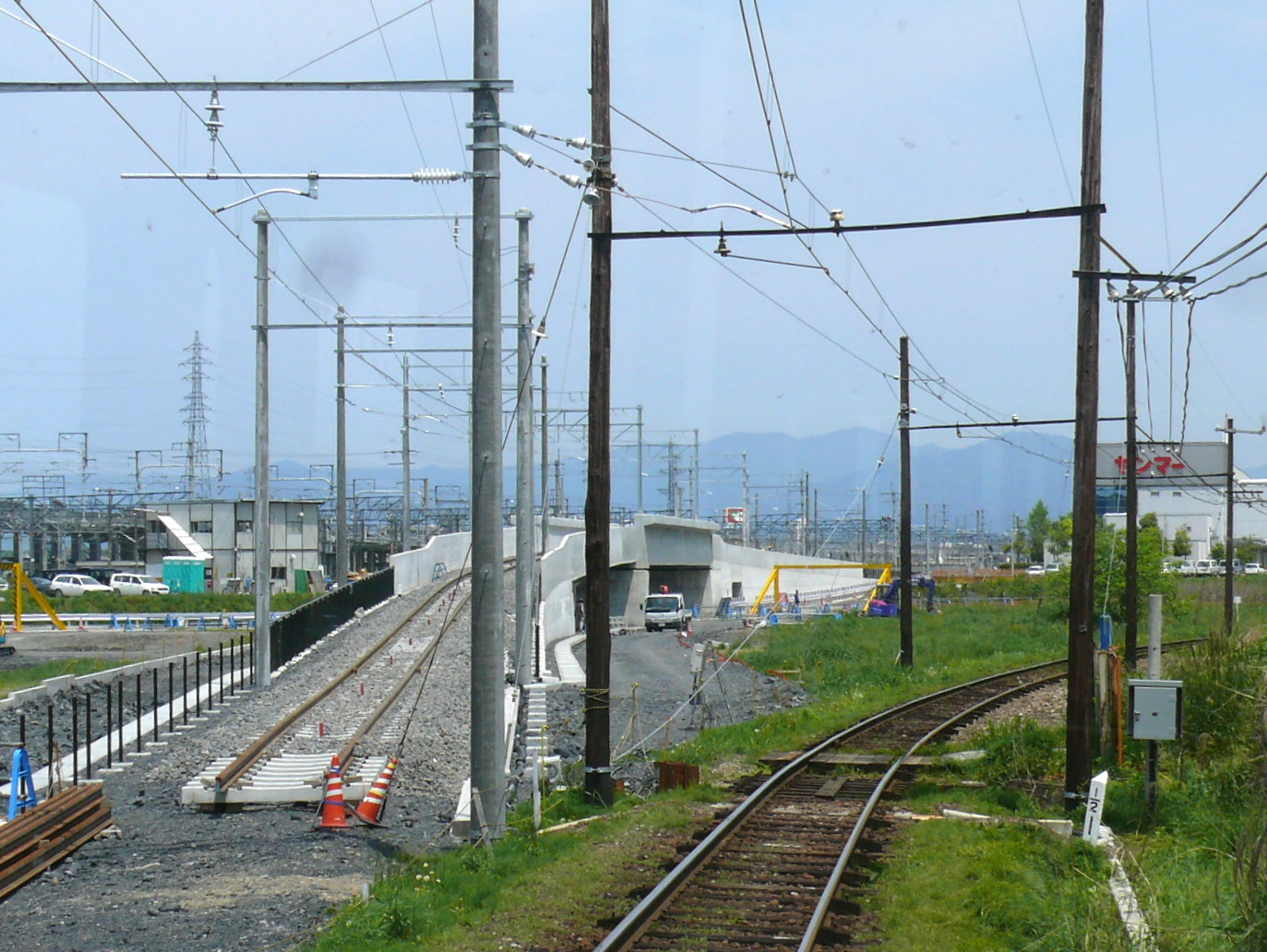 Ohmi Railway Main Line New line switch construction.